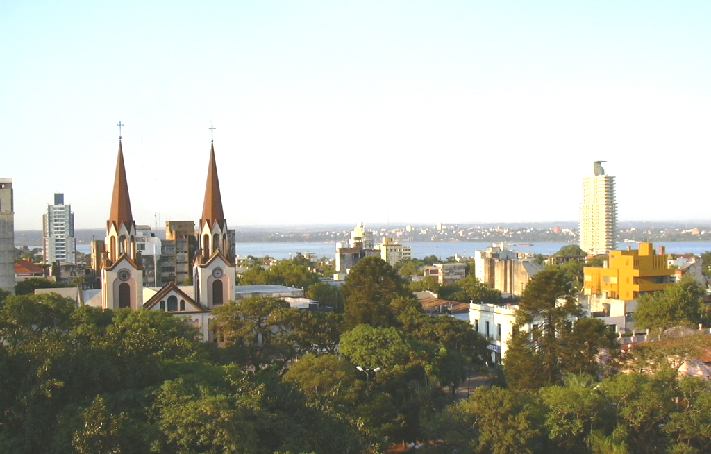 The city of Posadas, Misiones, Argentina. The Paraguayan city of Encarnación can be seen beyond the Paraná River in the background.